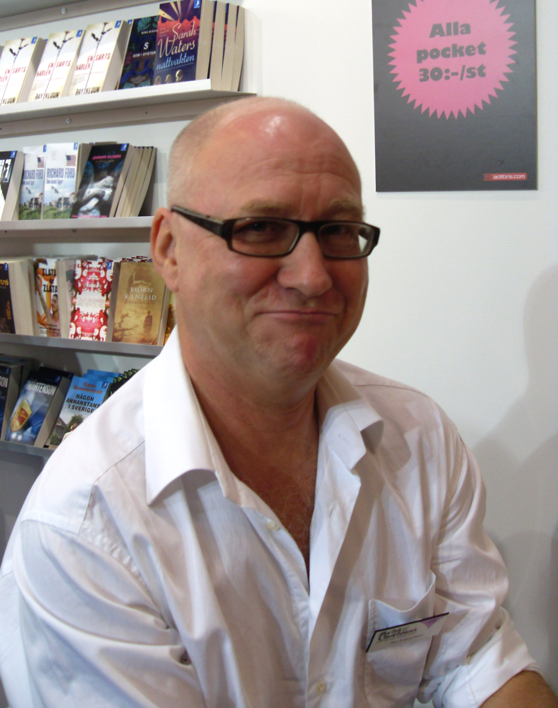 The swedish author Åke Edwardsson at Gothenburg book fair 2008